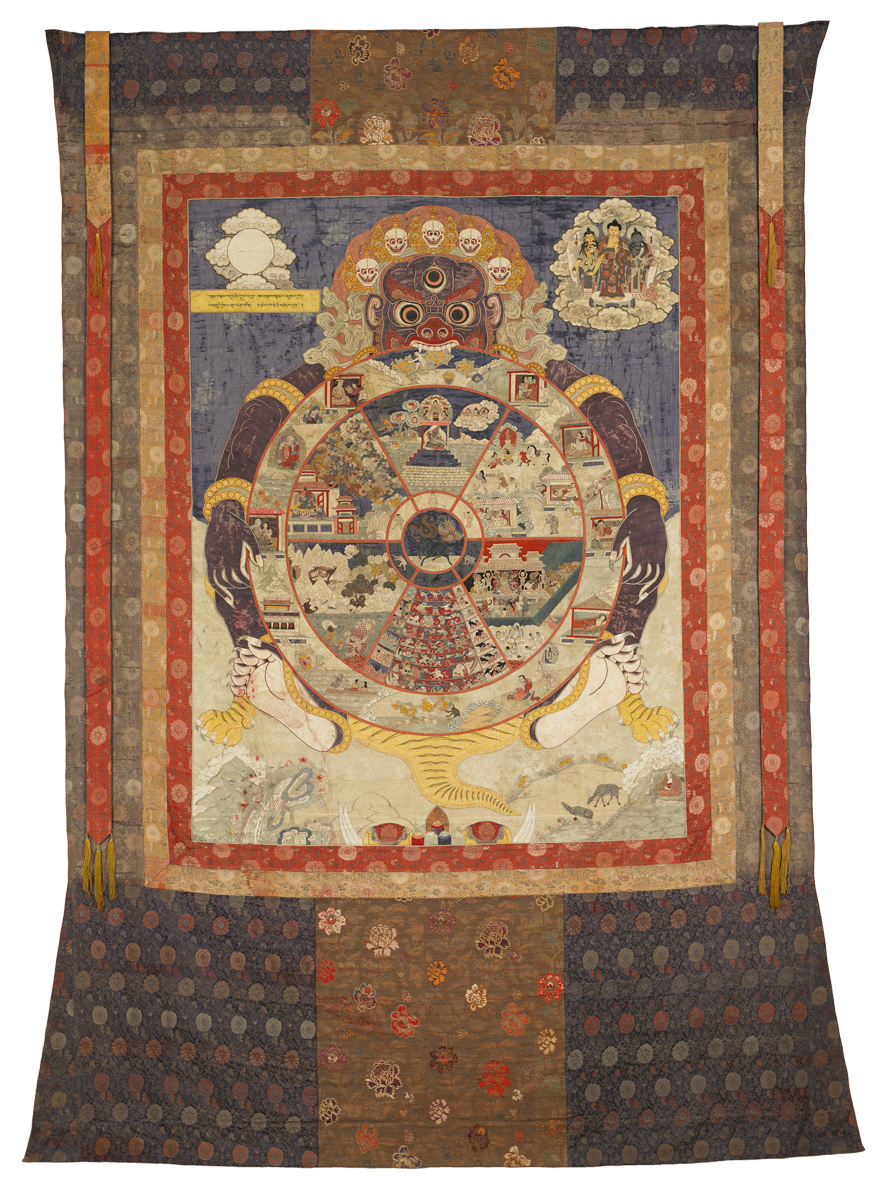 Picture of the Buddhist universe, or Wheel of Existence, displaying the six realms of existence